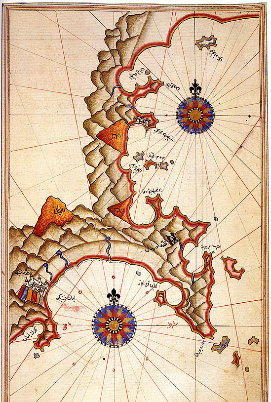 Riviera of Finike in Turkey on the Kitab-Ä± Bahriye (Book of Navigation) of Piri Reis